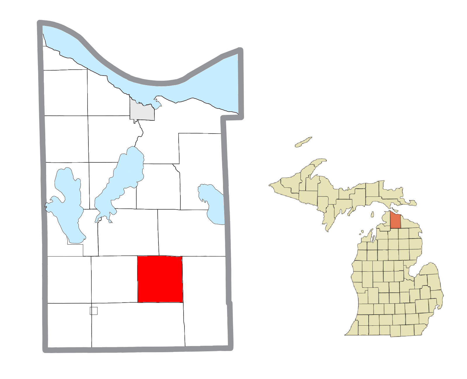 Walker Township, MI